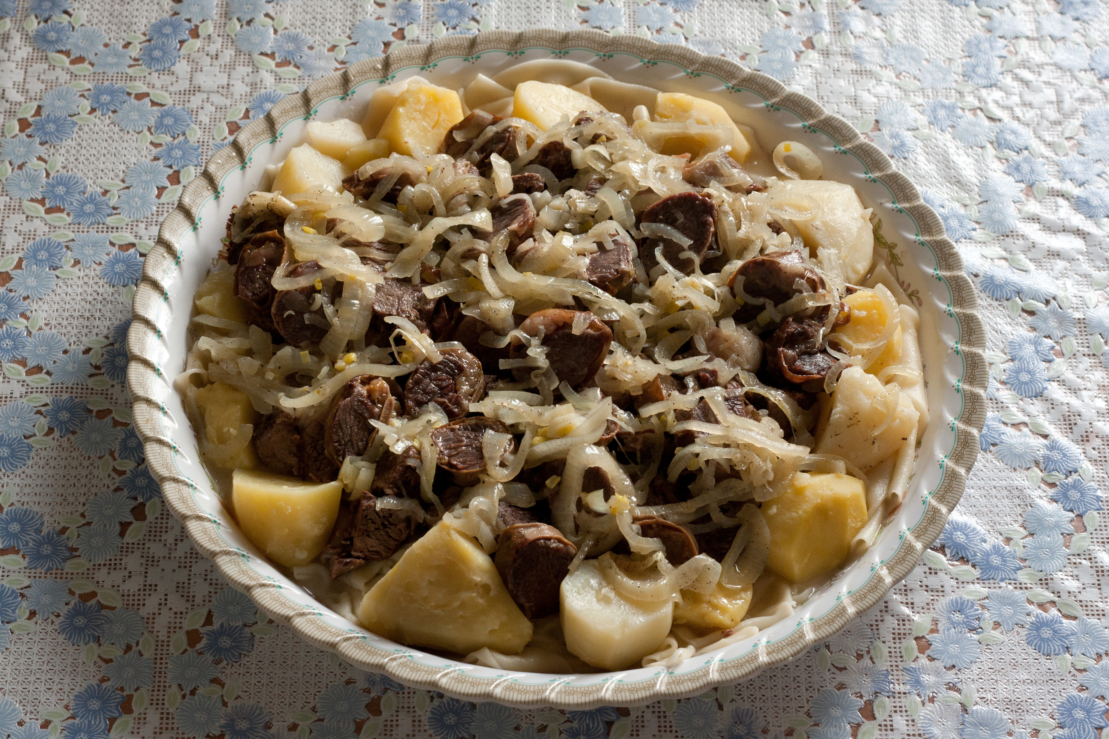 Kazakh (Almaty district) beshbarmak with potatoes